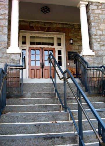 The entrance to the Delaplaine Fine Arts Center at Mount St. Mary's University in Maryland, United States.